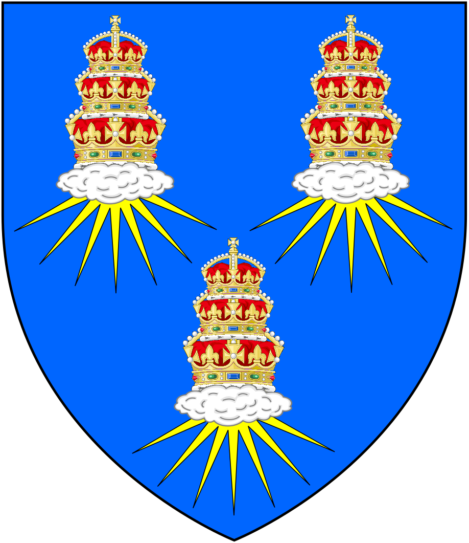 Arms of The Worshipful Company of Drapers, informally known as the Drapers' Company and formally known as The Master and Wardens and Brethren and Sisters of the Guild or Fraternity of the Blessed Mary the Virgin of the Mystery of Drapers of the City of London: Azure, three clouds radiated proper each adorned with a triple crown or (Source: Herbert, William, History of the Worshipful Company of Drapers of London, London, 1837, pp.389-90)